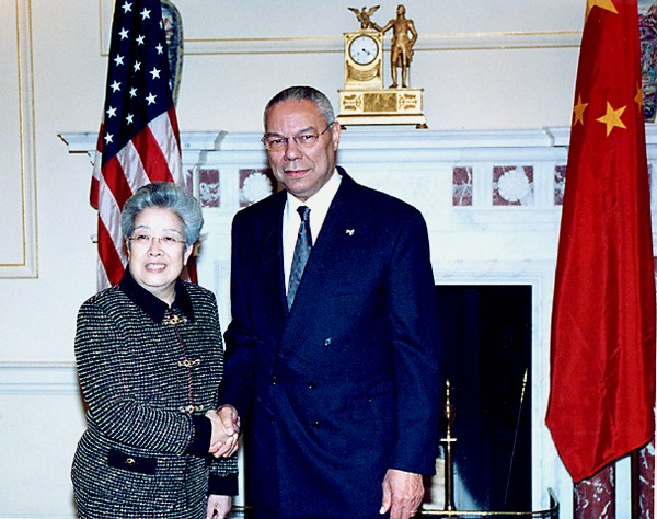 Former Secretary Powell with Her Excellency Wu Yi, Vice Premier of the People’s Republic of China after their Bilateral.